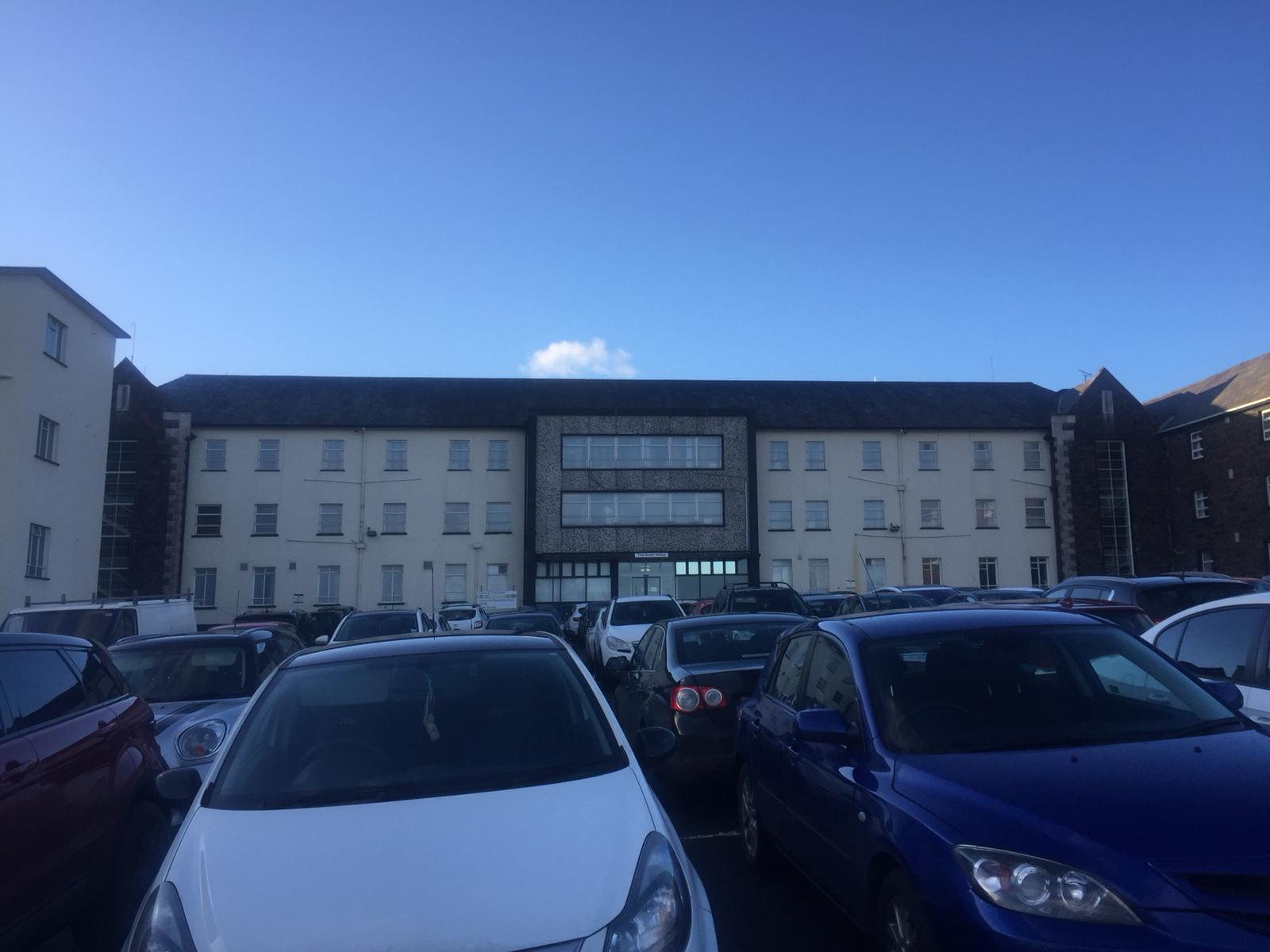 old building